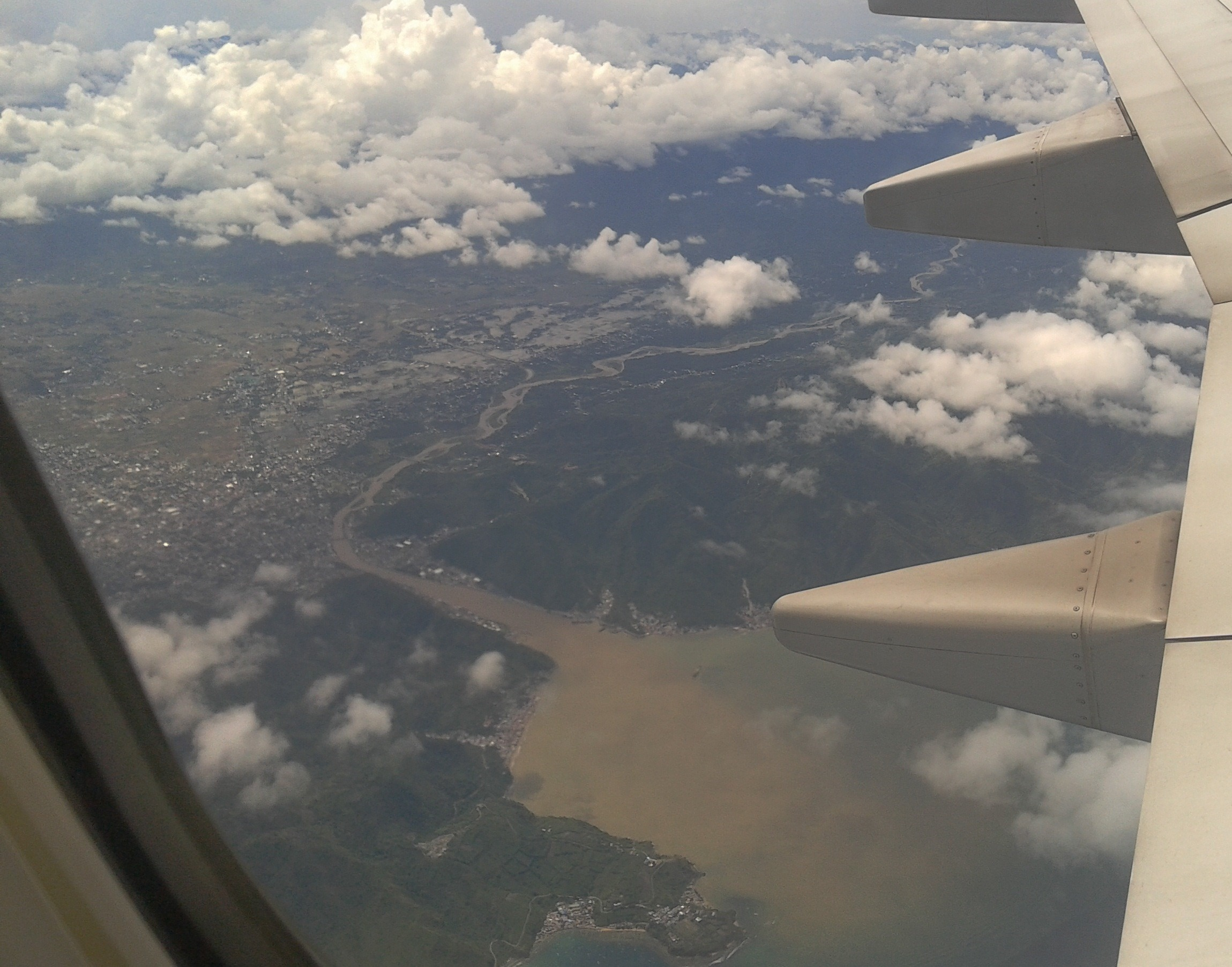 Bone river and its estuary